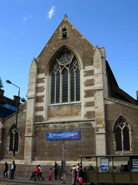 St Michael's Church, Camden Town. Situated on Camden Road , near the junction with Camden Street.